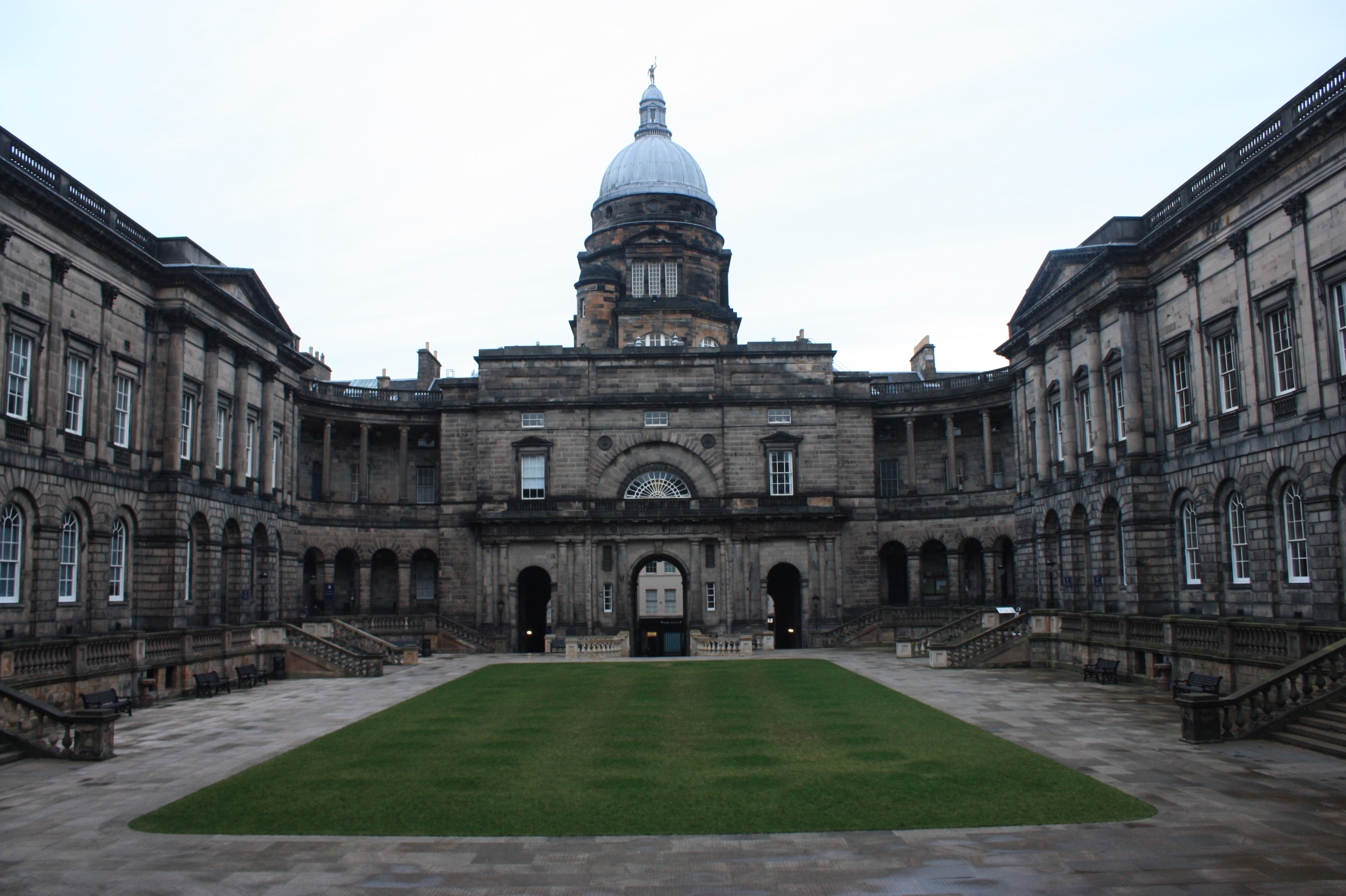 The remodelled central courtyard, Old College, Edinburgh (2013)